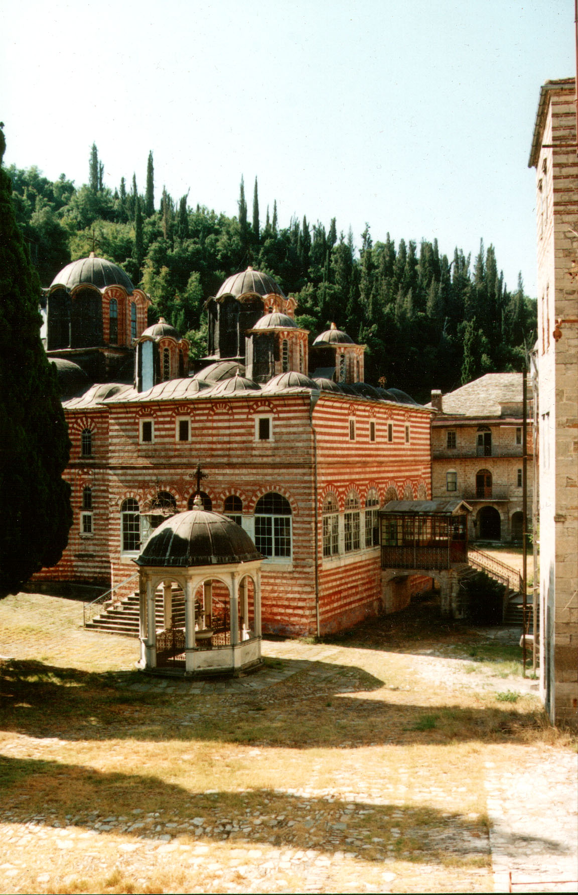 Katholikon of Zograf Monastery